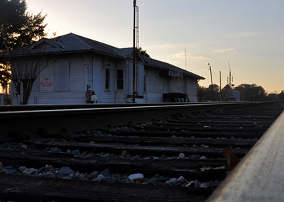 The old train station of Zwolle, Louisiana. Photo ©2010 Matthew A. Ebarb, Cataract Photo Use at your leisure, do not edit out my watermark and credit me if it's for public use. Shyngo (talk) 03:10, 12 December 2010 (UTC) Shyngo